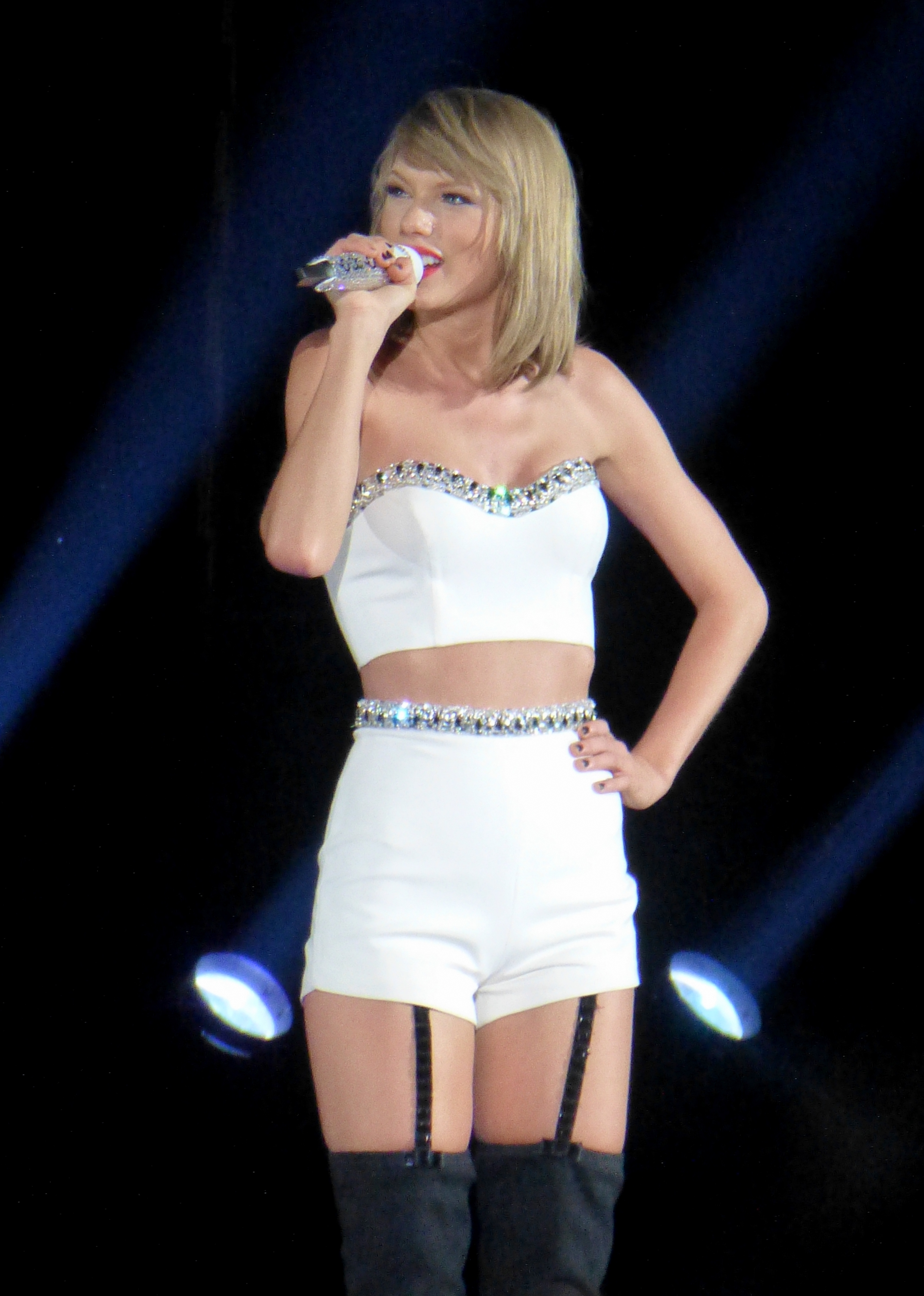 Taylor Swift 1989 Tour at Ford Field in Detroit, 5/30/15